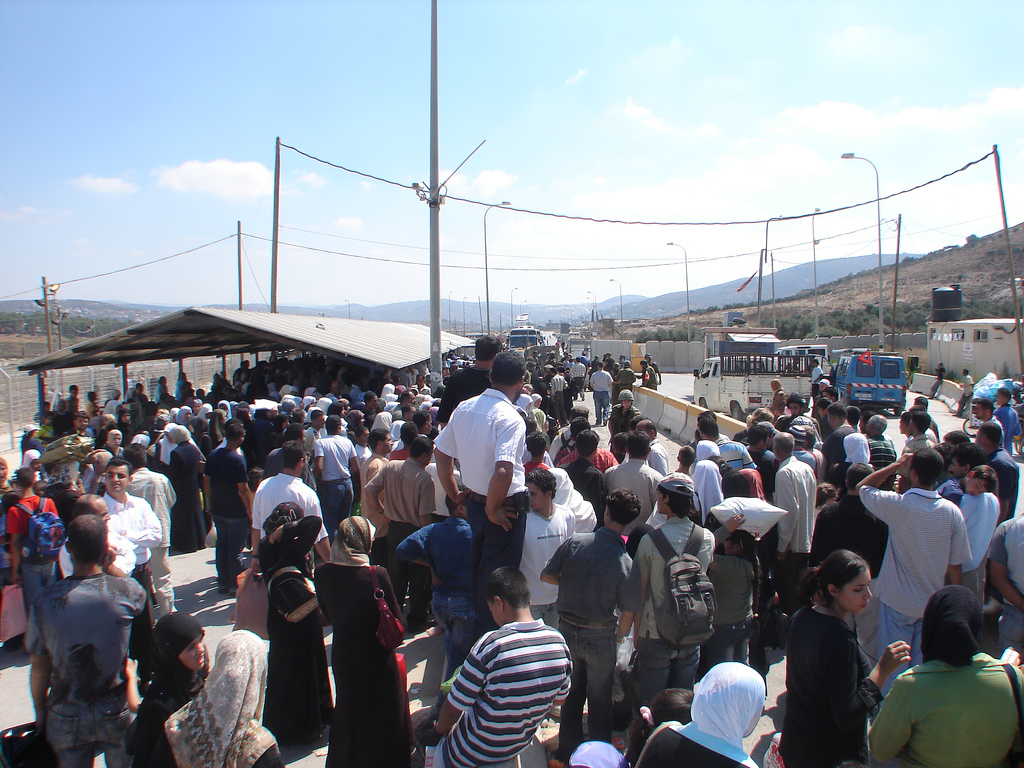 View from Nablus side of Howwarah checkpoint people waiting to travel south.